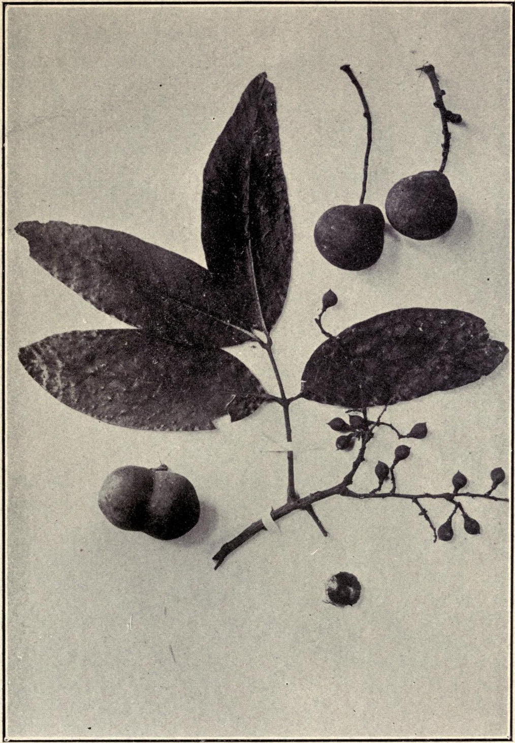 Alectryon macrccoccus, showing young and mature fruits and seed. Slightly less than one-third natural size.